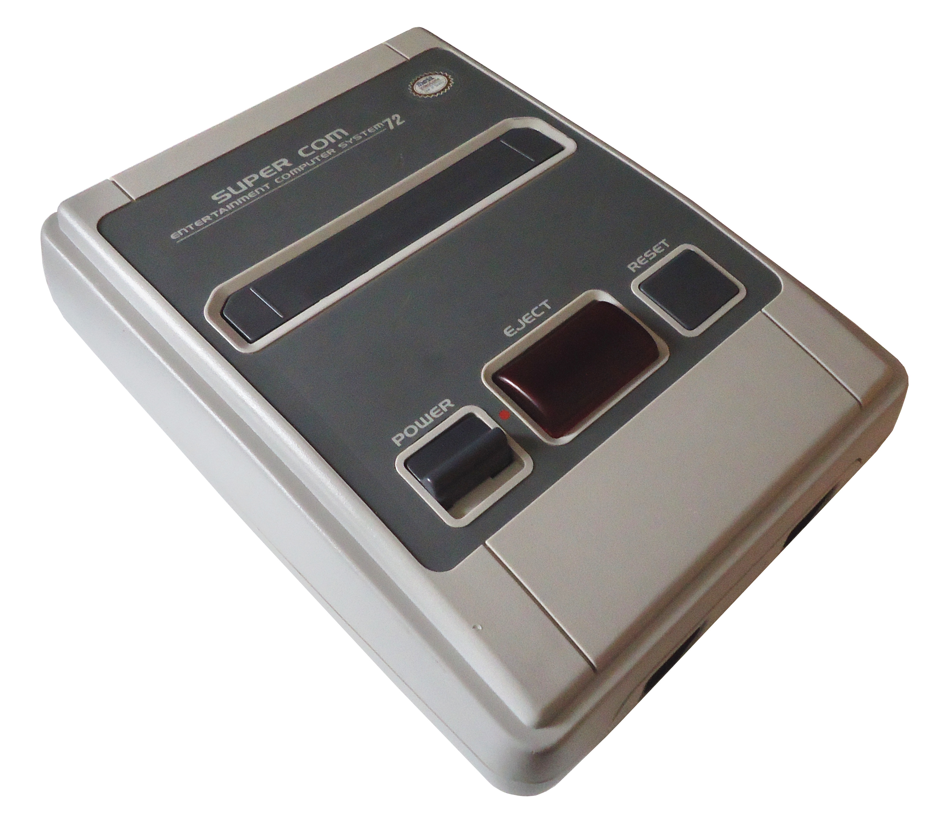 Supercom SP-72 famiclone, with a 72-pin socket, PAL, with standard 7-pin NES connectors, and with built-in RF and composite outputs. Serial number 120575. Made in Taiwan.